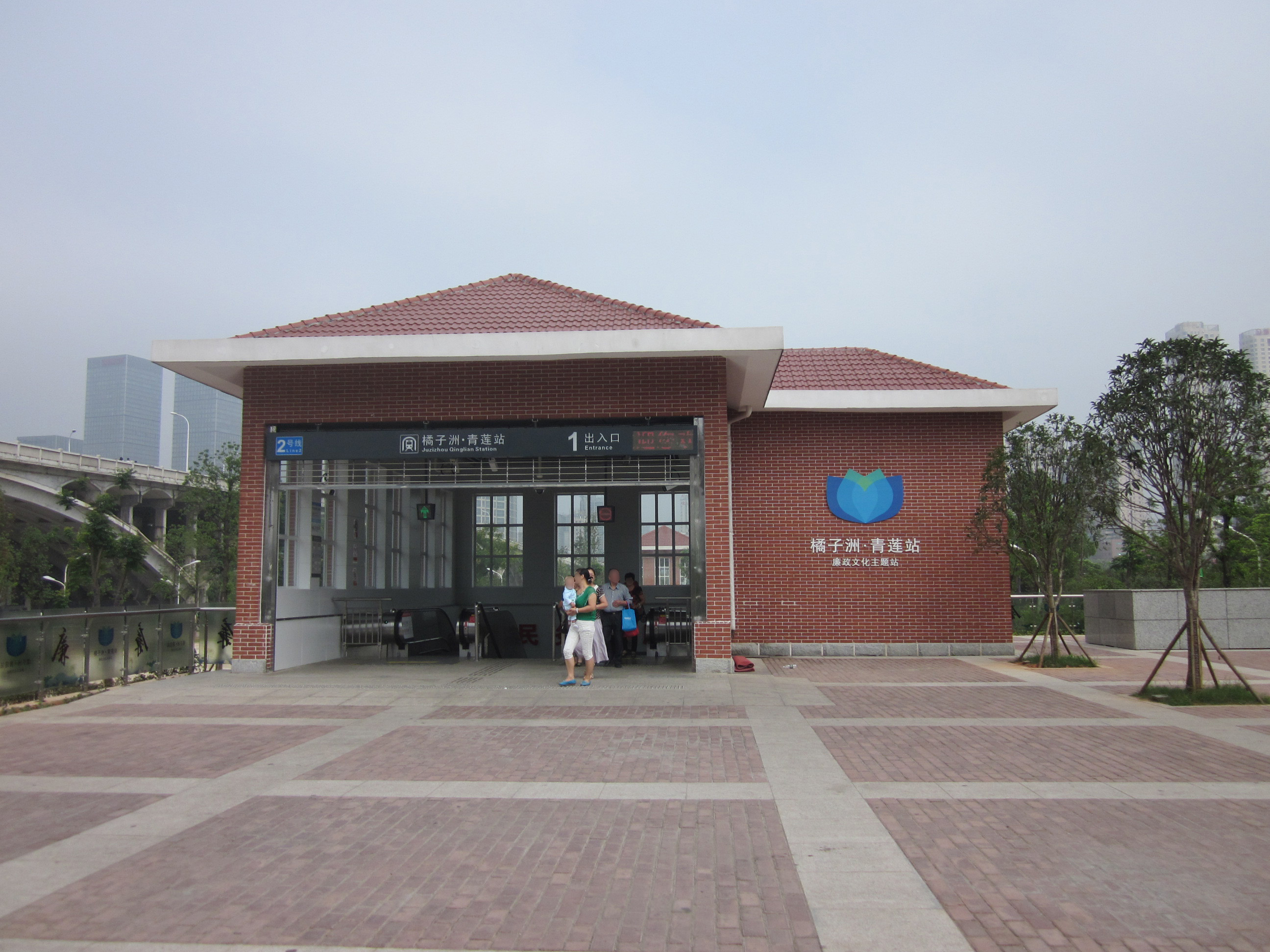 Juzizhou Station (Chinese:橘子洲站).